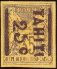 Stamp of Tahiti: 24c overprint on 35c Type Sage Country: French Colonies and Territories Series: Tahiti Catalog codes: Yvert et Tellier FR-TA 3, Michel FR-TA 1I Emission: Definitive Perforation: Imperforated Printing: Typography Face value: 25 French centimes